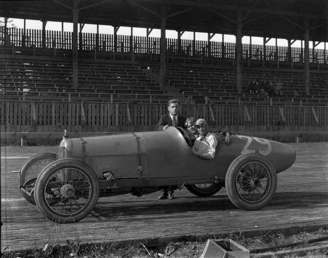 Race car driver Eddie O'Donnell is behind the wheel of a Duesenberg in this July of 1920 photograph. His "mechanician" Lyall Jolls is seated next to him. The man standing was not positively identified. Eddie O'Donnell was part of the Duesenberg team which sent four top drivers to the 1920 225-mile July 5th race at the Tacoma Speedway, including eventual winner Tommy Milton, Jimmy Murphy and Eddie Miller. Although the number on the Duesenberg is 29, the Tacoma Daily Ledger had listed Mr. O'Donnell's car as #9. Showing a generous spirit, Mr. O'Donnell gave up his car so that a competitor, Ralph DePalma, could drive it. Mr. DePalma, a popular driver, had a broken connecting rod on his French Ballot which was not repairable in time for the race. Mr. O'Donnell did compete in the race by driving his teammate Eddie Miller's vehicle but came in last of the eight cars remaining. Mr. O'Donnell's fortitude was unquestioned; he had broken an arm in a Kansas City race in 1916 and raced with only one arm for months. He was to die later in 1920 in a collision with Gaston Chevrolet in California. (TDL 6-29-20, p. 1-article; TDL 7-2-20, p. 1-article; Tacoma Sunday Ledger 7-4-20, B-2-list of drivers & cars; TDL 7-6-20, p. 1-results)